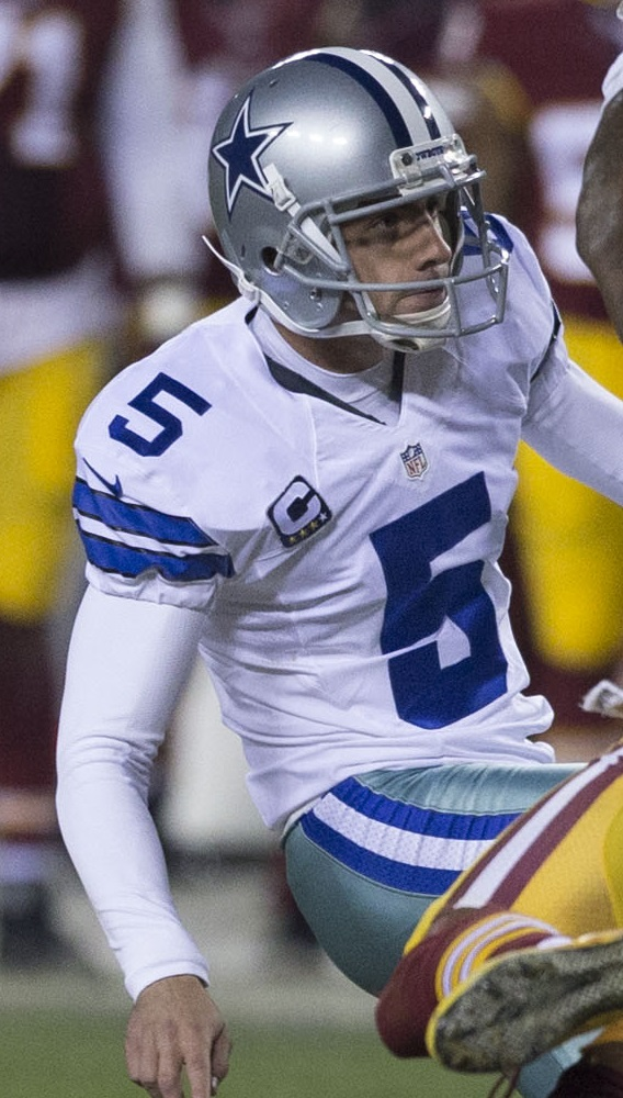 Cowboys at Redskins 12/7/15